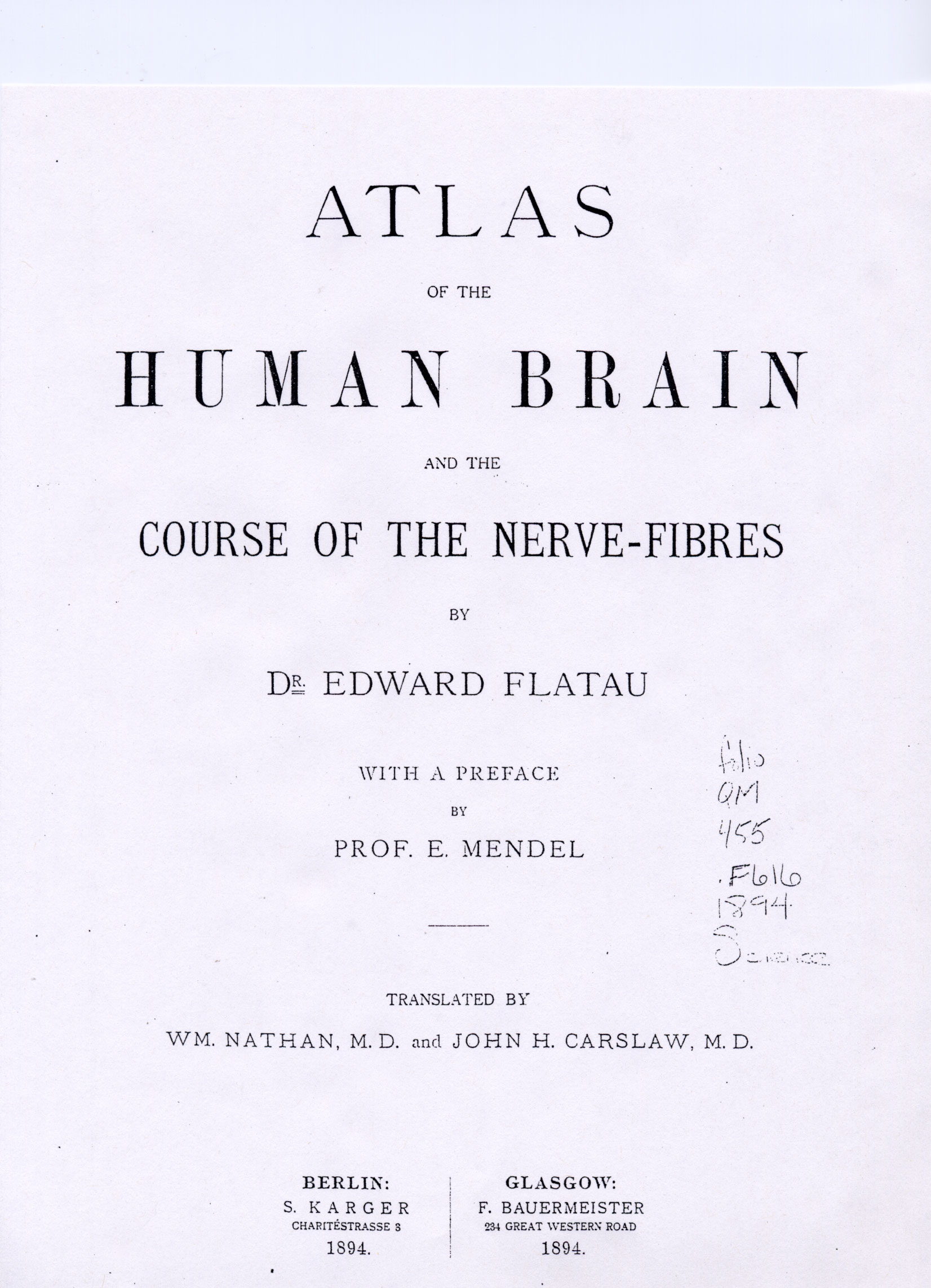 First page of English version of the Atlas of the Human Brain and the Course of the Nerve-Fibres, 1894, Glasgow, F. Bauermeister